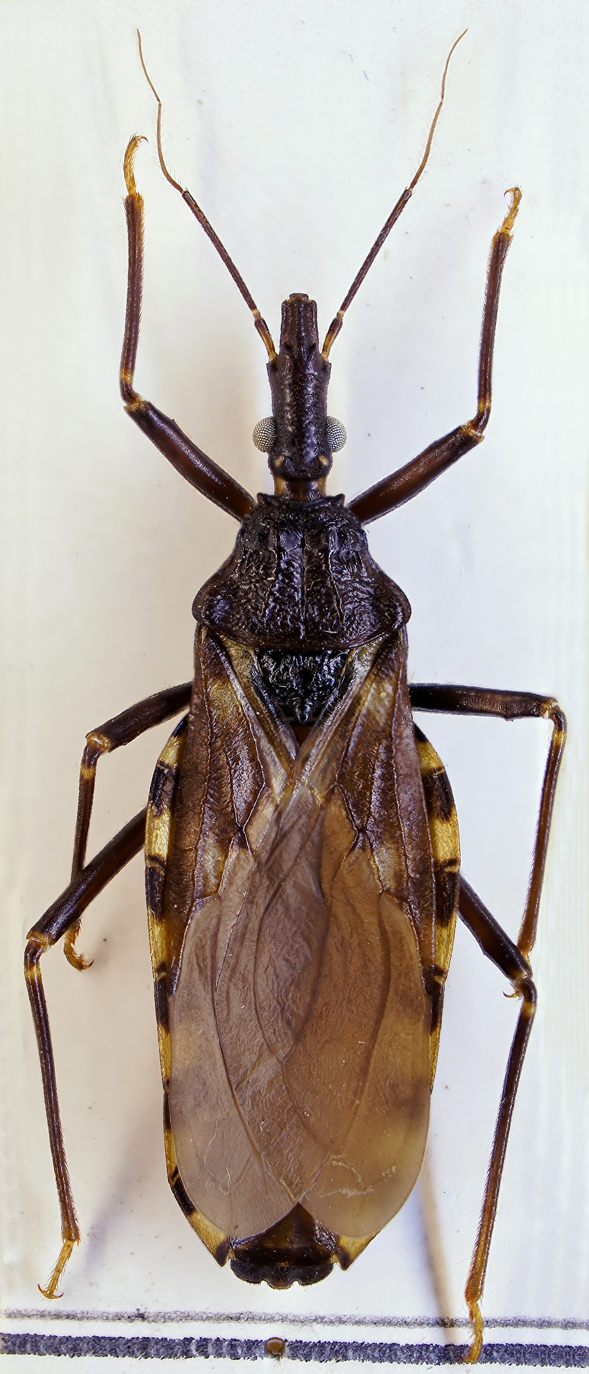 Triatoma infestans; Specimen of the Zoologische Staatssamlung München. Locality: Bolivia, Cochabamba, Leg. Zischka.